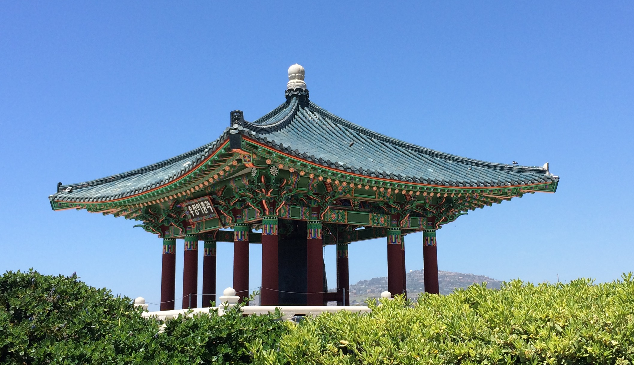 Korean Bell of Friendship California